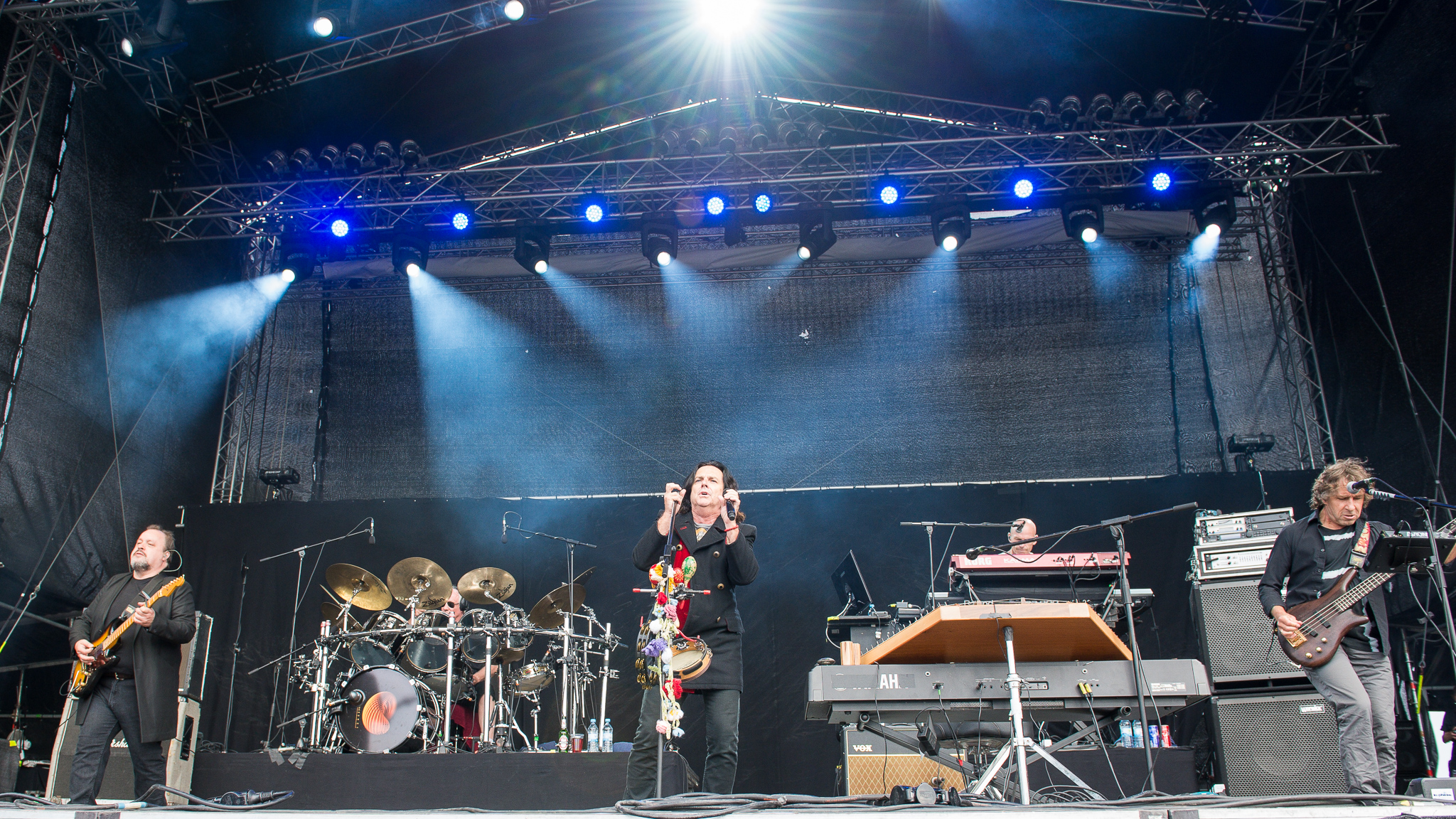 Brombachsee,Concertbüro Franken,Festival,Ian Mosley,Konzert,Lieder am See,Livekonzert,Livemusik,Marillion,Mark Kelly,Musik,Pete Trewavas,Steve Hogarth,Steve Rothery